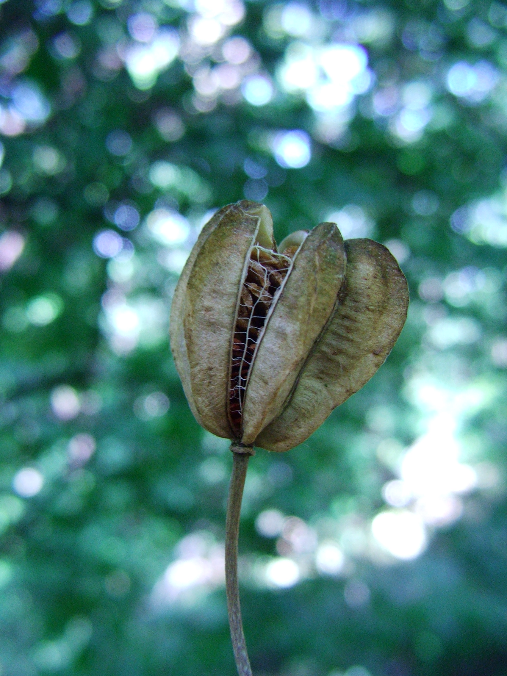 Fruit of Lilium martagon.